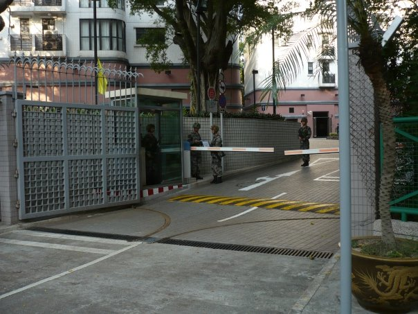 Gun Club Hill PLA